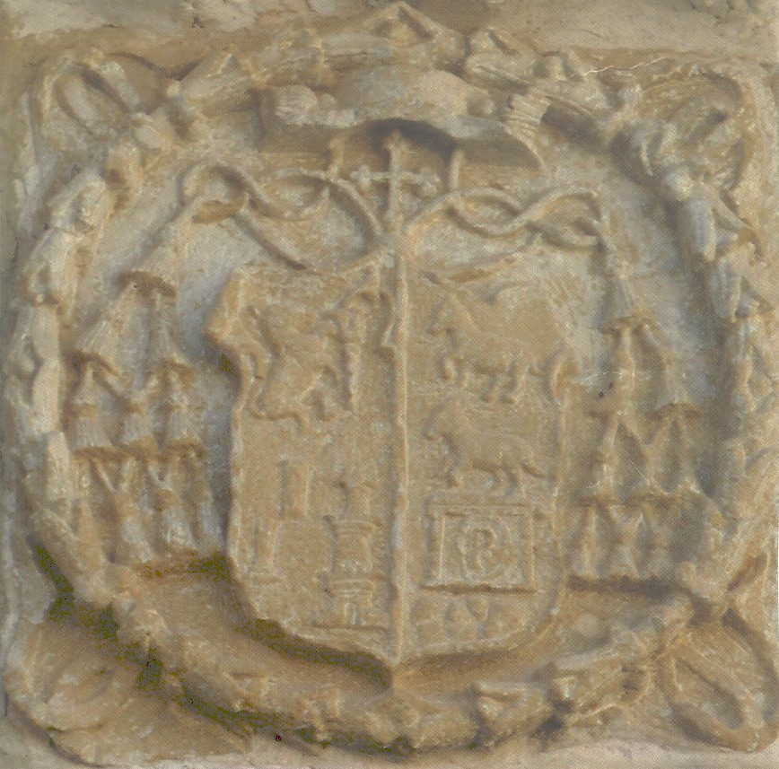 Escudo Palacio Episcopal